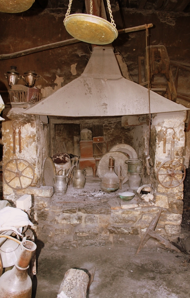 Lahıc, Azerbaijan.